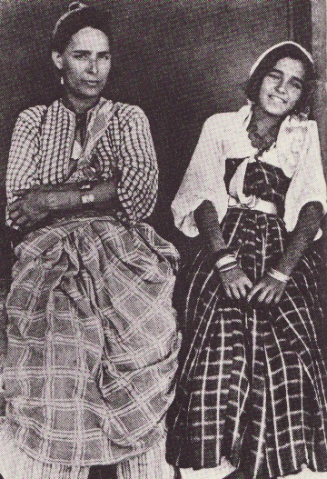 Jewish mother and daughter in traditional dress in Tripoli